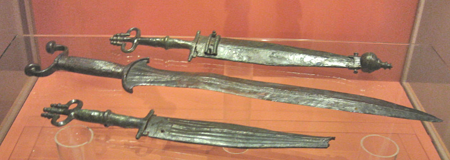 Hallstatt D daggers and short antennae sword